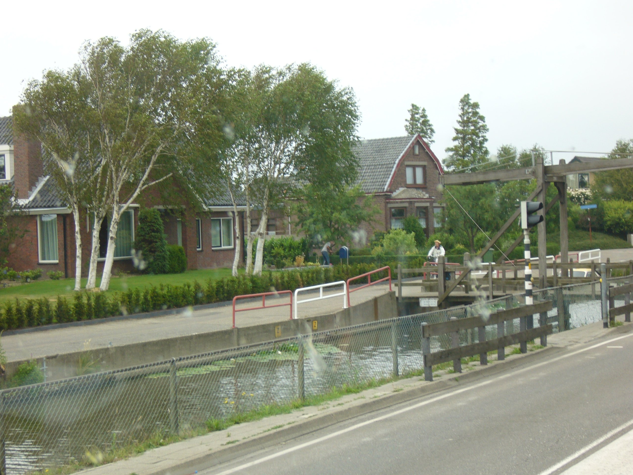 Poeldijk (Netherlands).